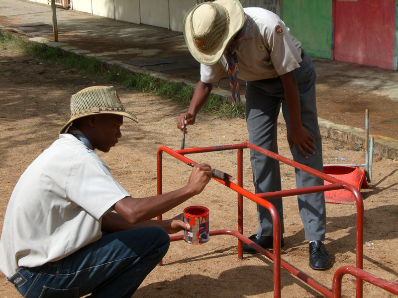 The Scouts in the Mpumalanga region in South Afrika are coordinating projects of the